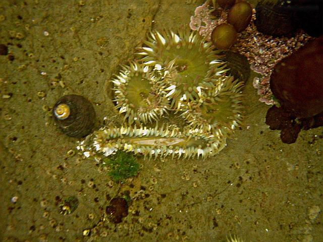 Sea Anemone is in process of cloning(longitudinal fission). Few hours later instead of one unit there will be two.